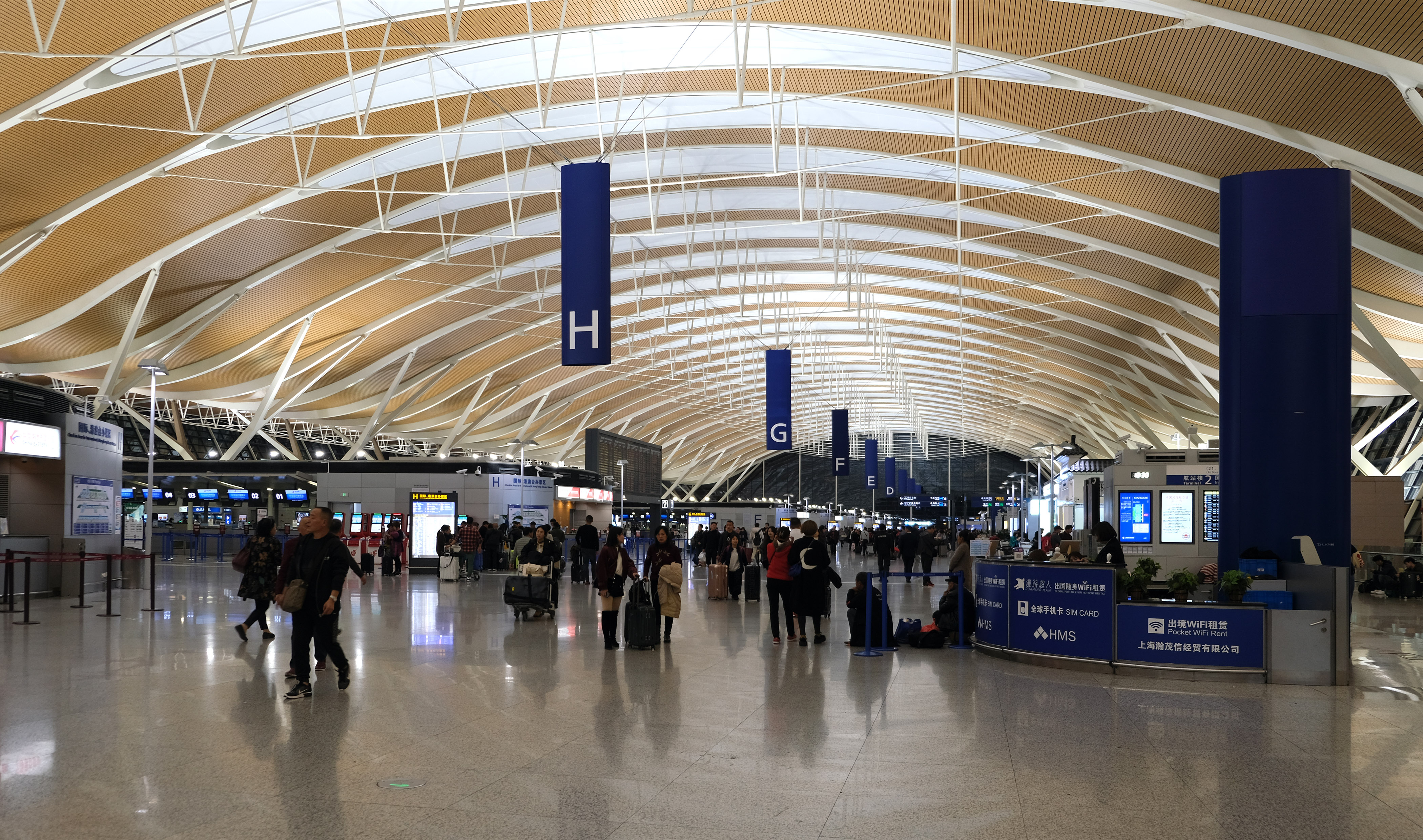 Shanghai Pudong airport: the check-in hall.